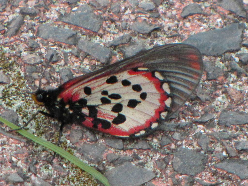 Acara Acraea (Acraea acara), Cape Town, South Africa